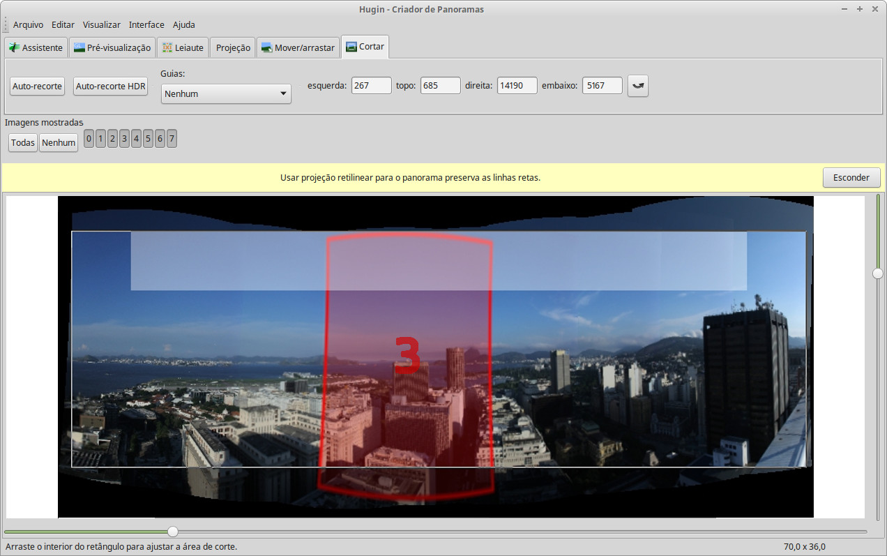 Screen capture from Hugin fast panorama preview window